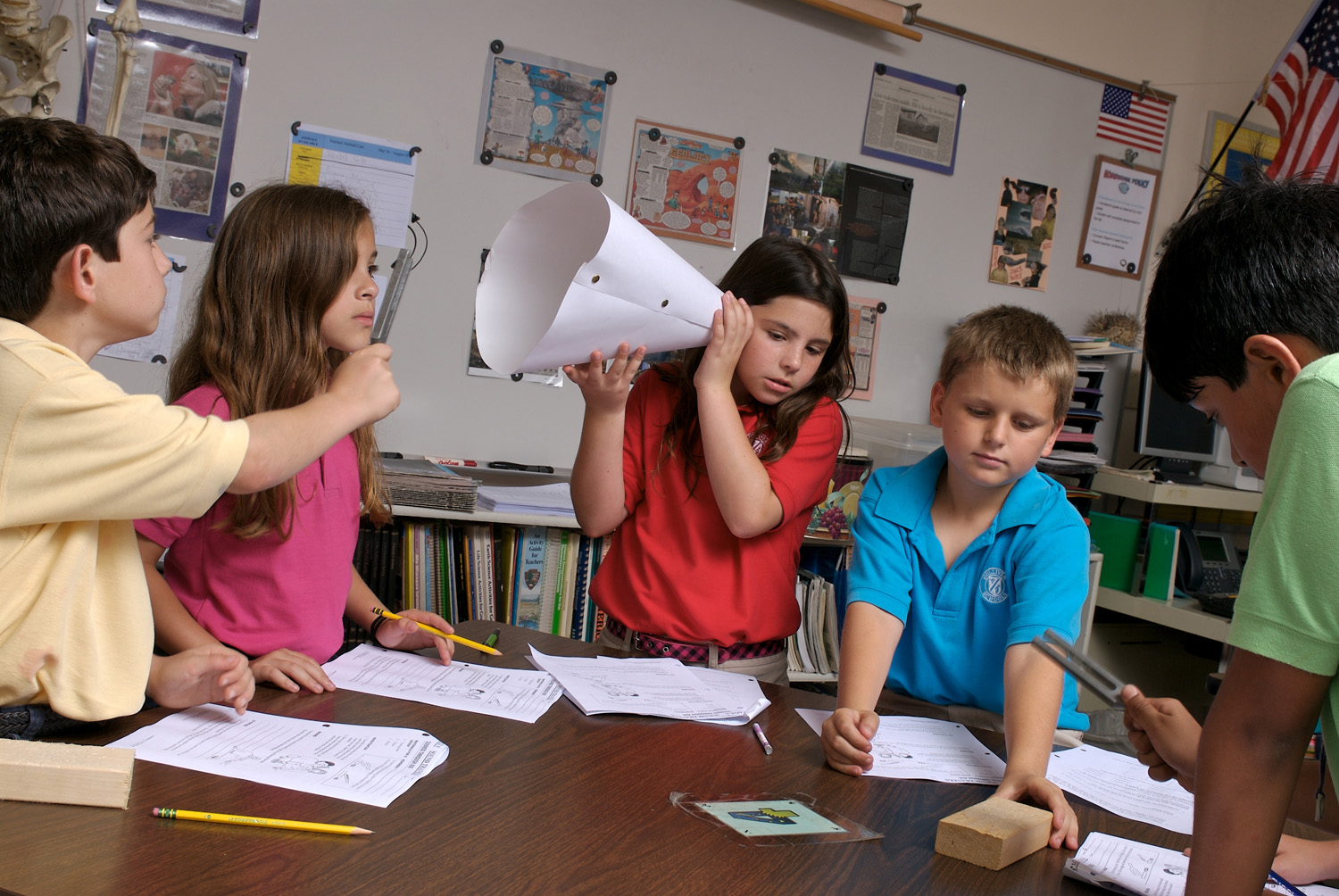 Gulliver Academy students test for sound during a science experiment.